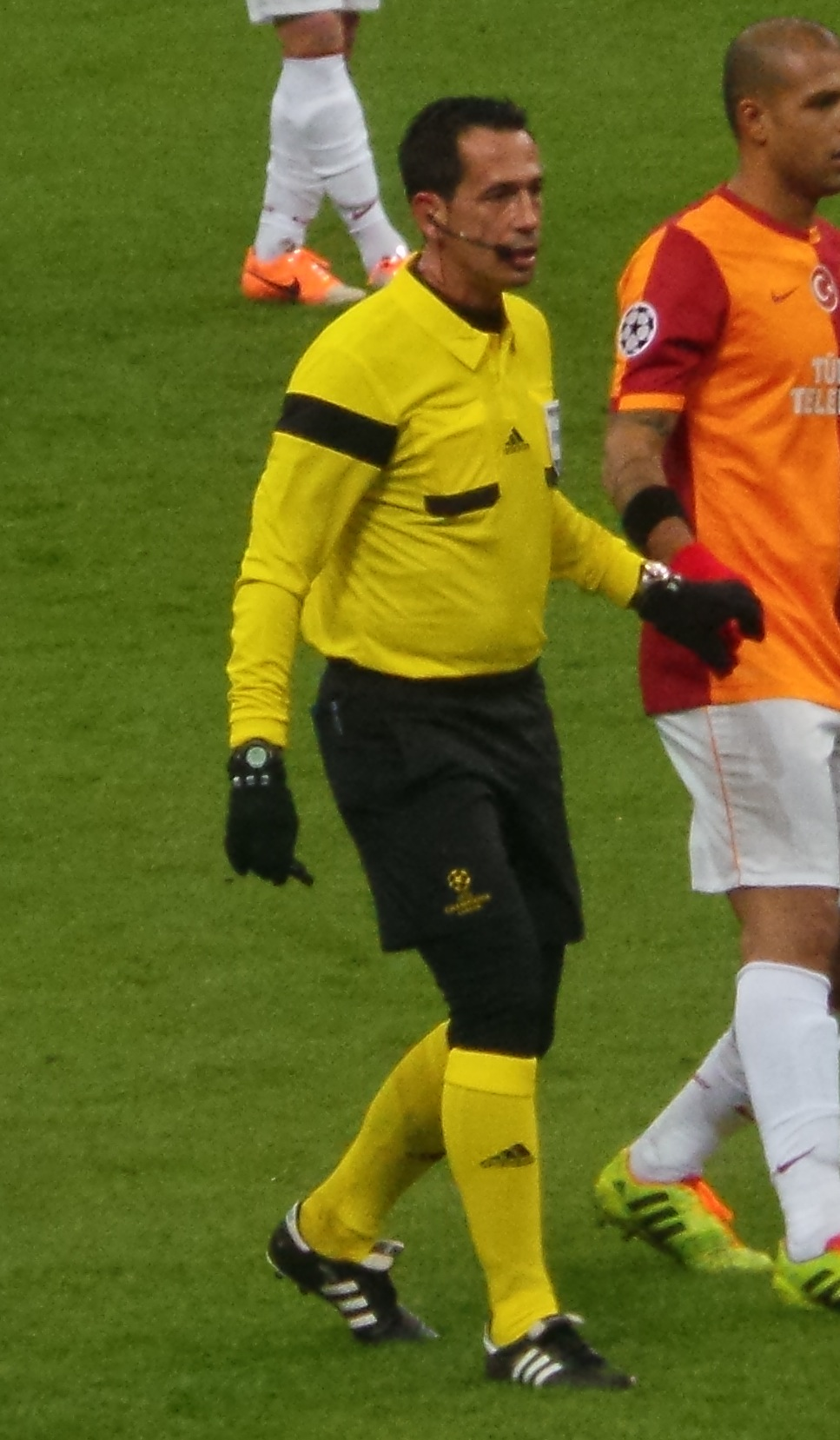 Pedro Proença